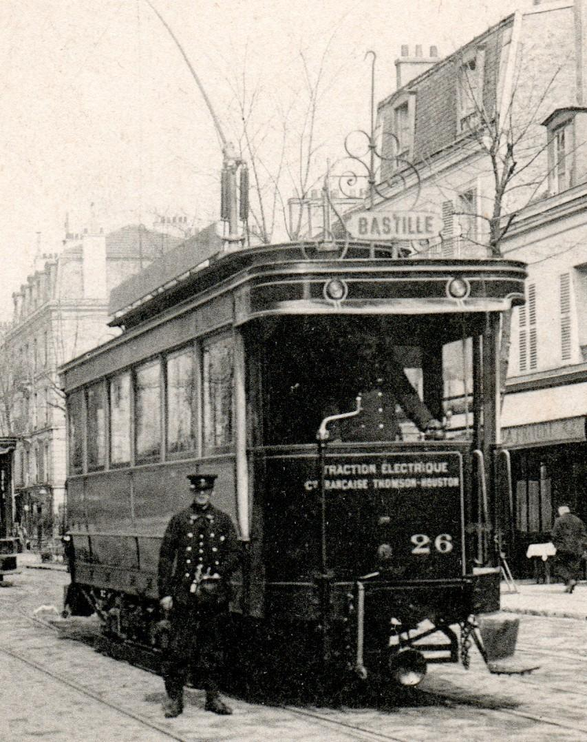 Thomson-Houston electric tram in Paris (France), CGPT network, vintage postcard published by "GL", Paris, in 1905.